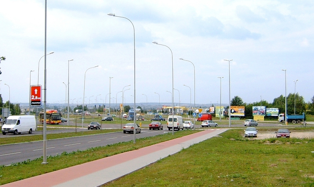 Honourable Blood Givers Roundabout in Zamość (after rebuilding, 2012)